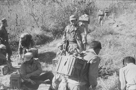 AWM description: After a rest, a group of Korean carriers return their loads to their backs and continue on a long walk in hills in Korea. They probably belong to a Korean Service Corps, and are carrying wooden and metal boxes of supplies and ammunition, possibly for the 3rd Battalion, The Royal Australian Regiment (3RAR). An unidentified soldier (left) is supervising the Korean carriers, who are wearing military style uniforms with caps.